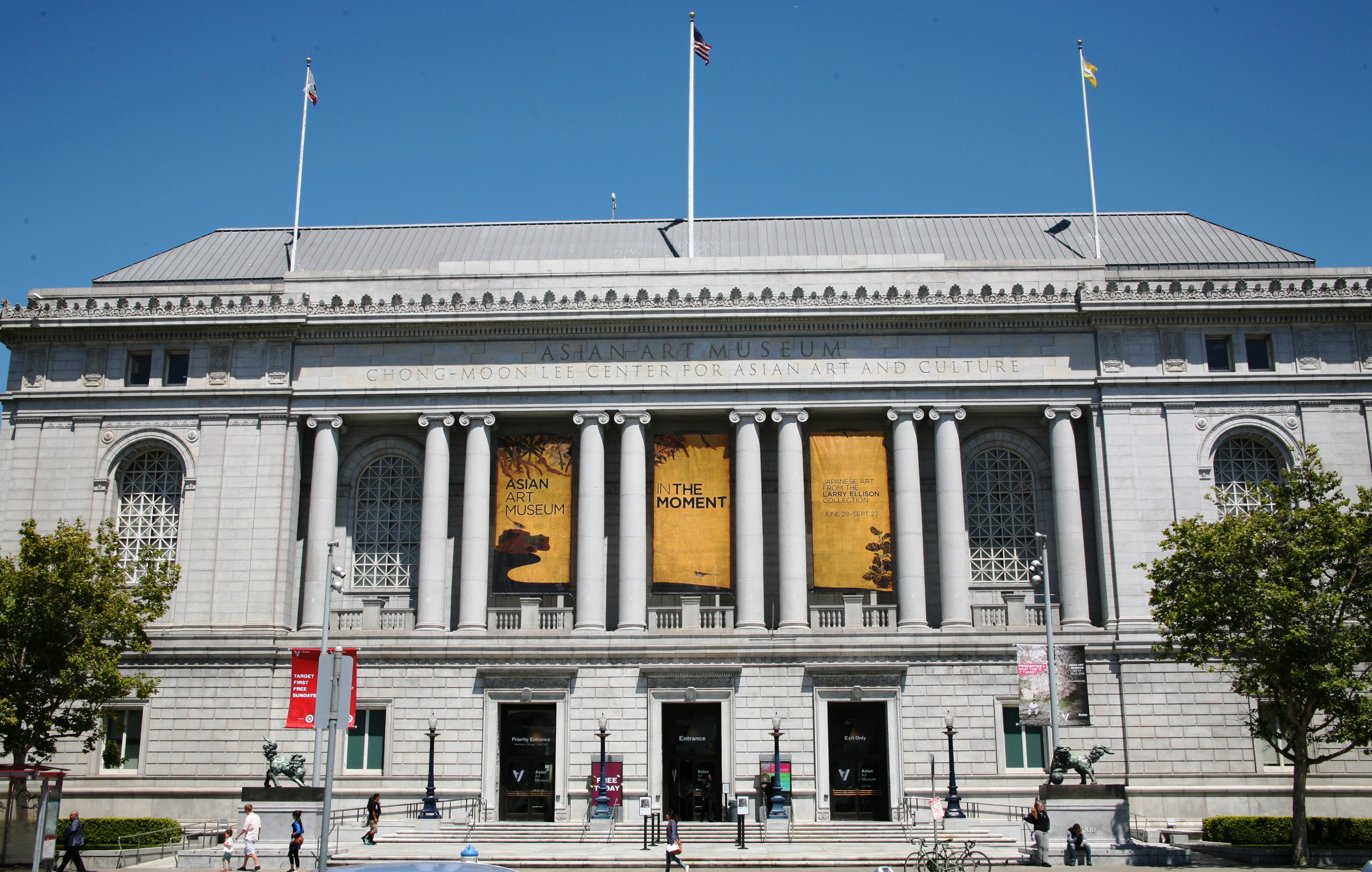 Asian Art Museum